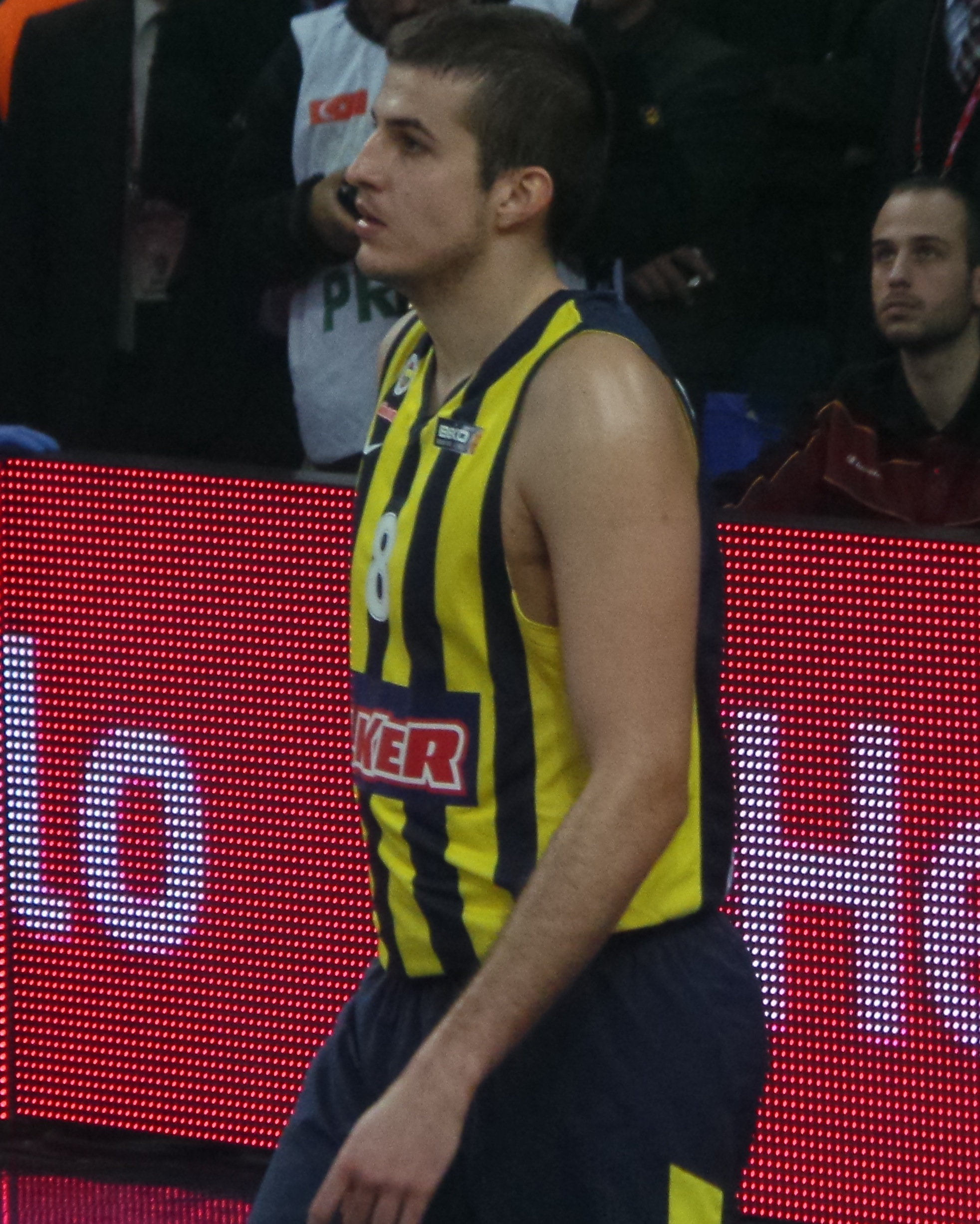 Nemanja Bjelica